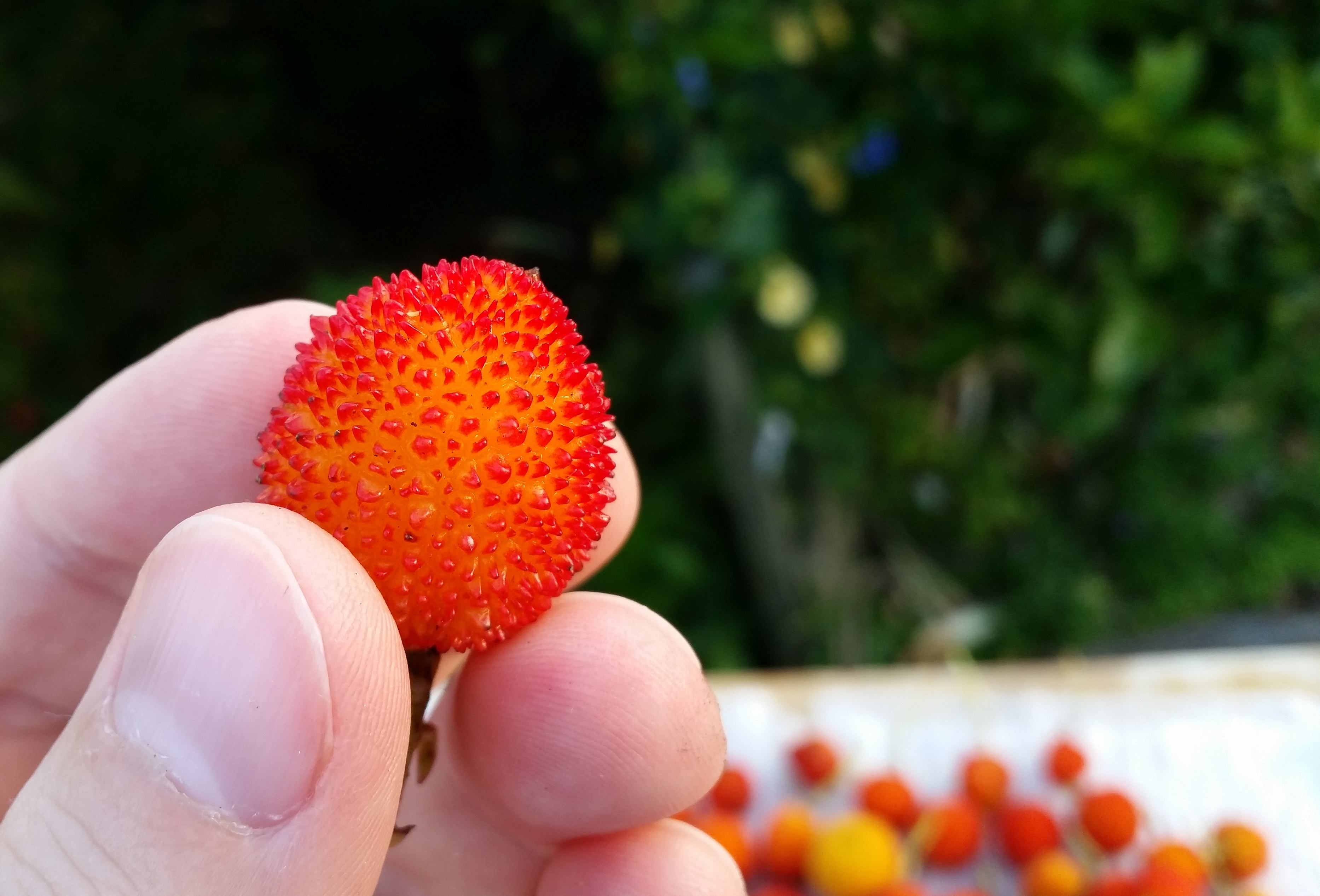 Arbutus unedo fruit close-up